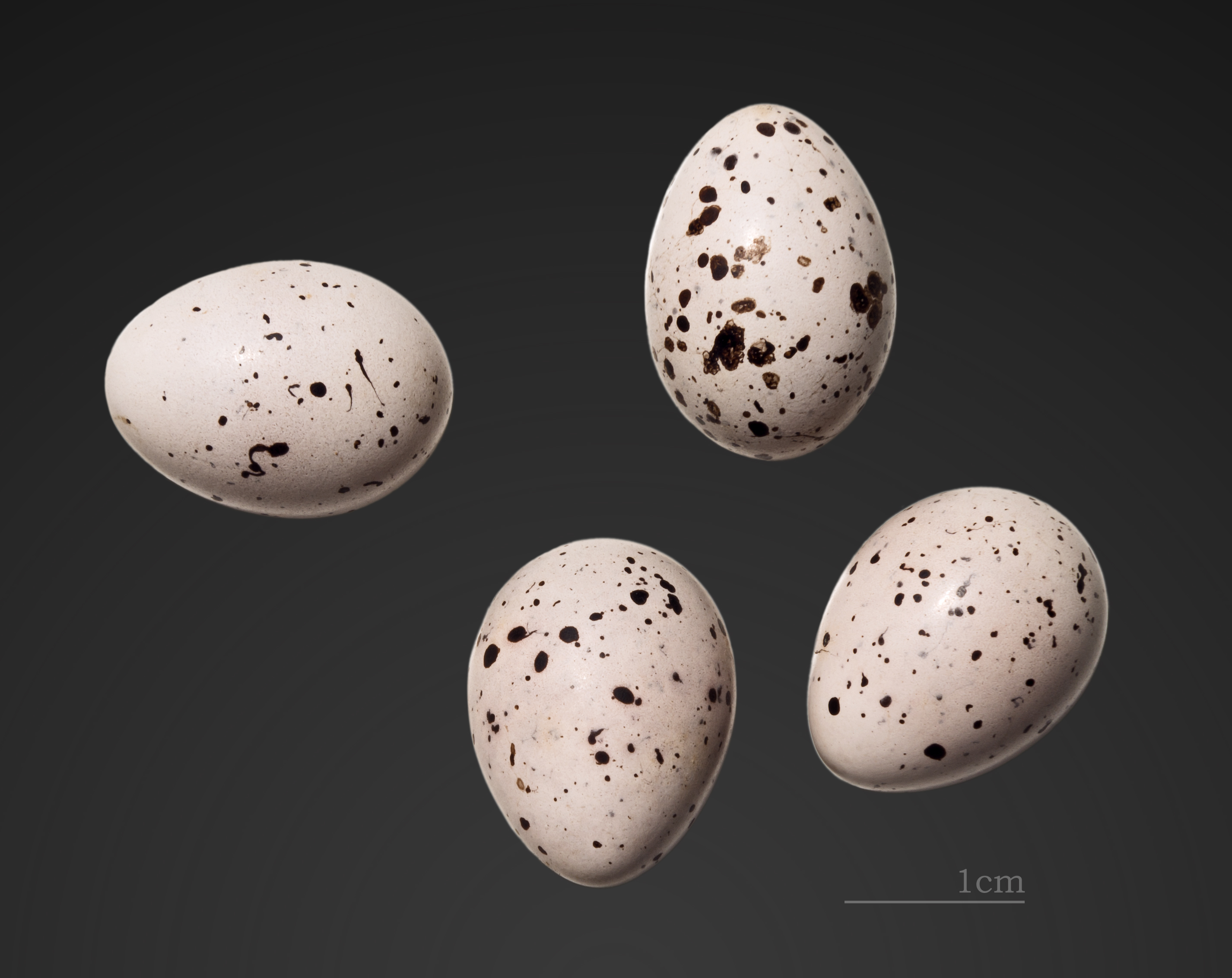 Egg of Olive-tree warbler. Collection of Jacques Perrin de Brichambaut